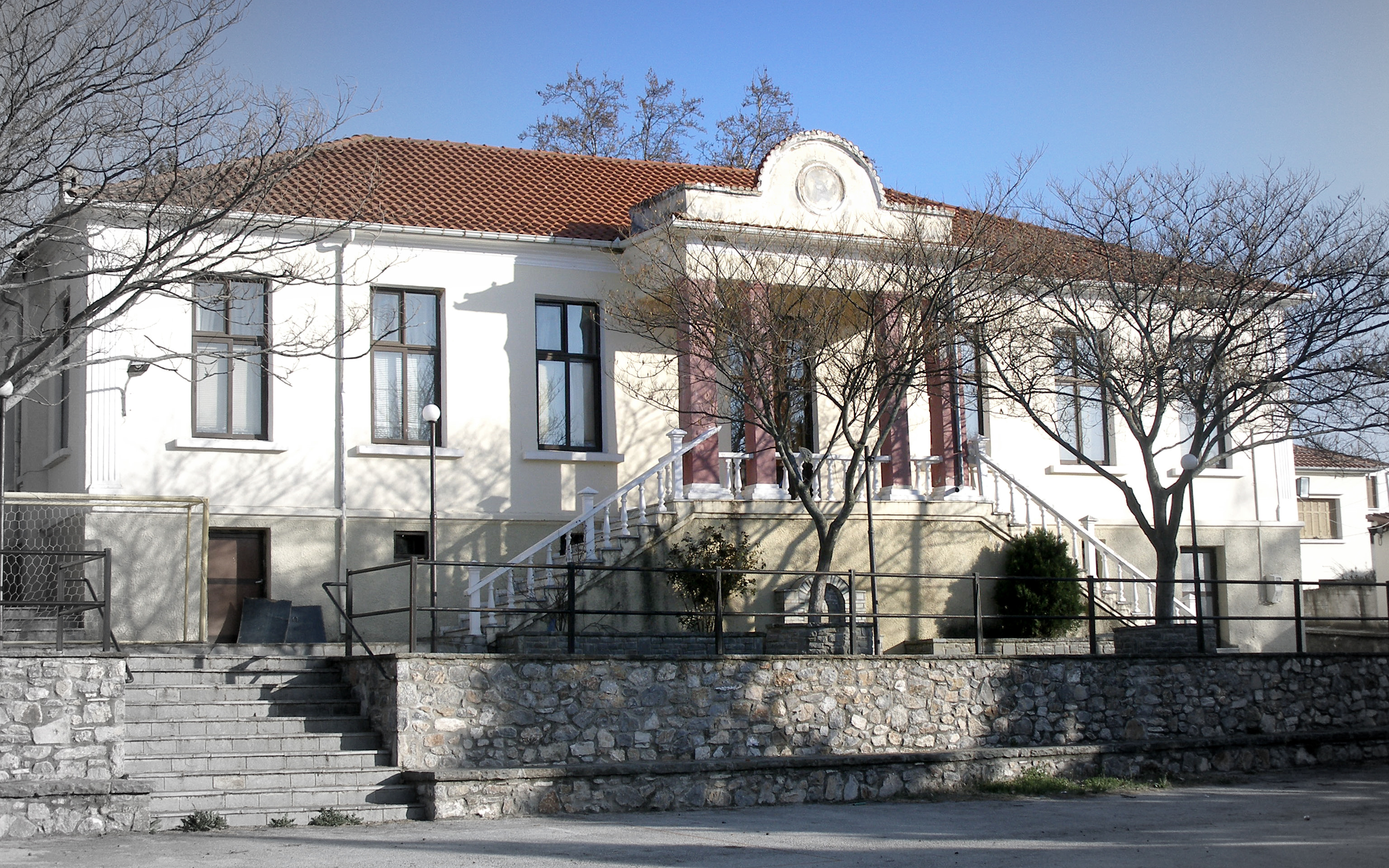 Village of Pelekanos (Pelka) - The Old School Building